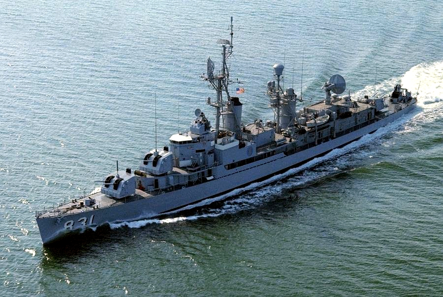 The U.S. Navy radar picket destroyer USS Goodrich (DDR-831) underway at sea in the 1960s.